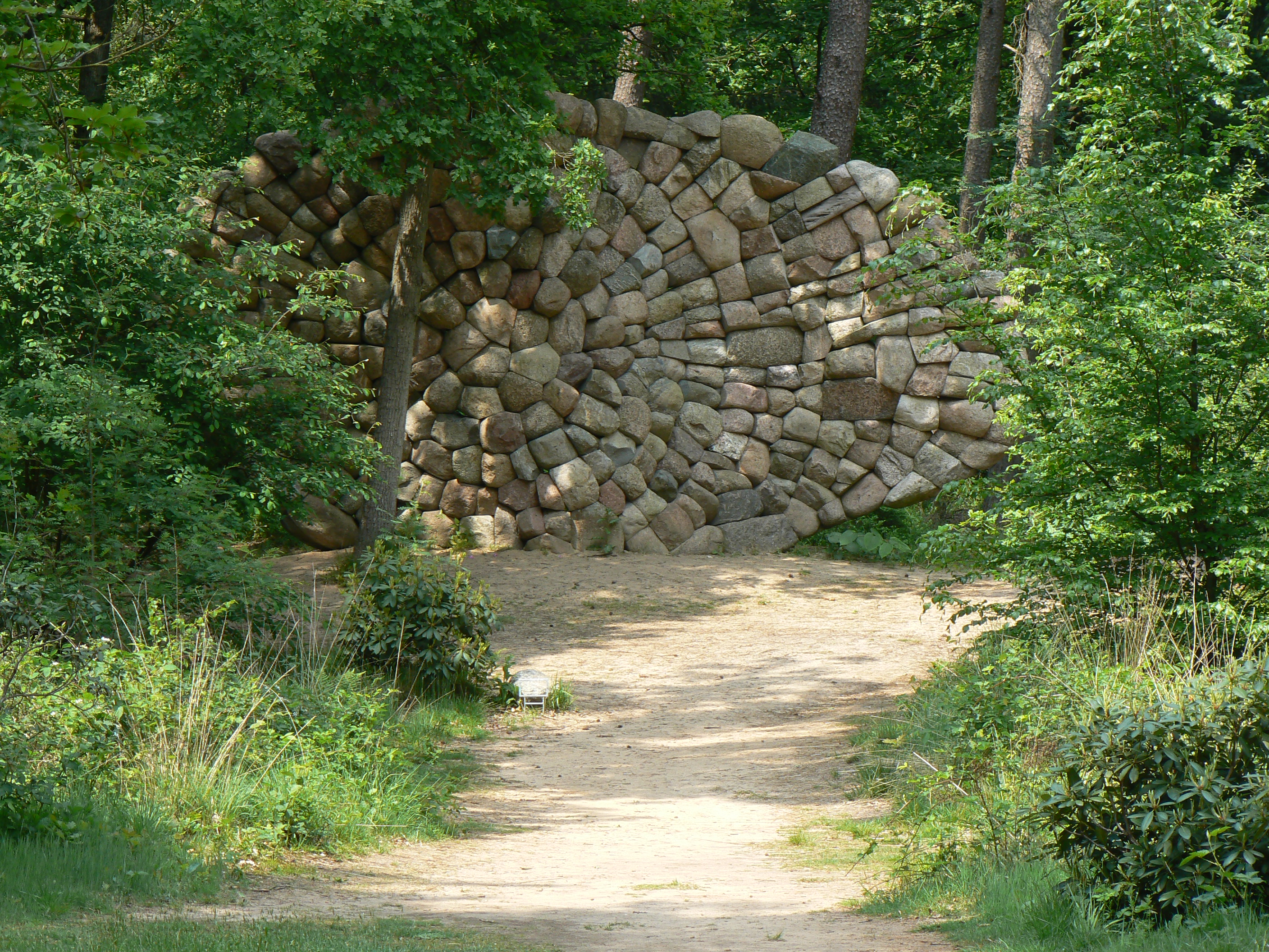 sculpture De echo van de Veluwe (2003/5) by Chris Booth in sculpturepark KMM/The Netherlands